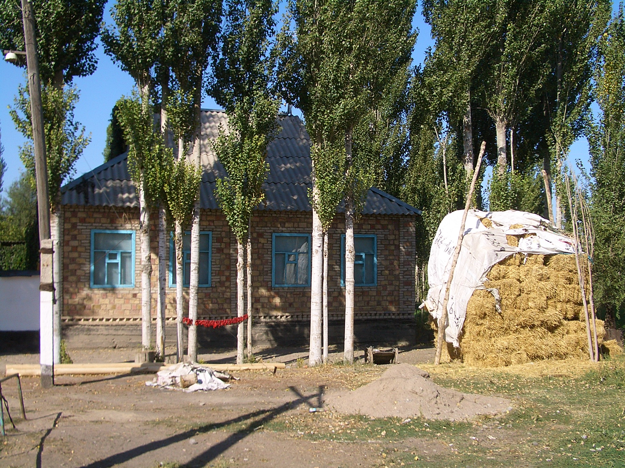 A fairly typical good house in Milyanfan village, Kyrgyzstan.